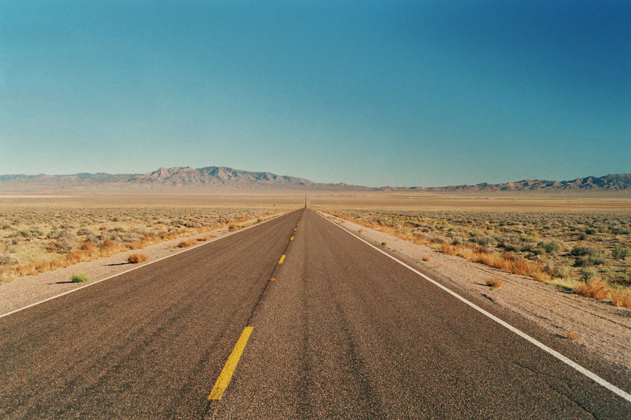 State Route 375 heads south through Sand Spring Valley in the southern Nevada desert. The town of Rachel and adjacent farm land can be seen in the distance.